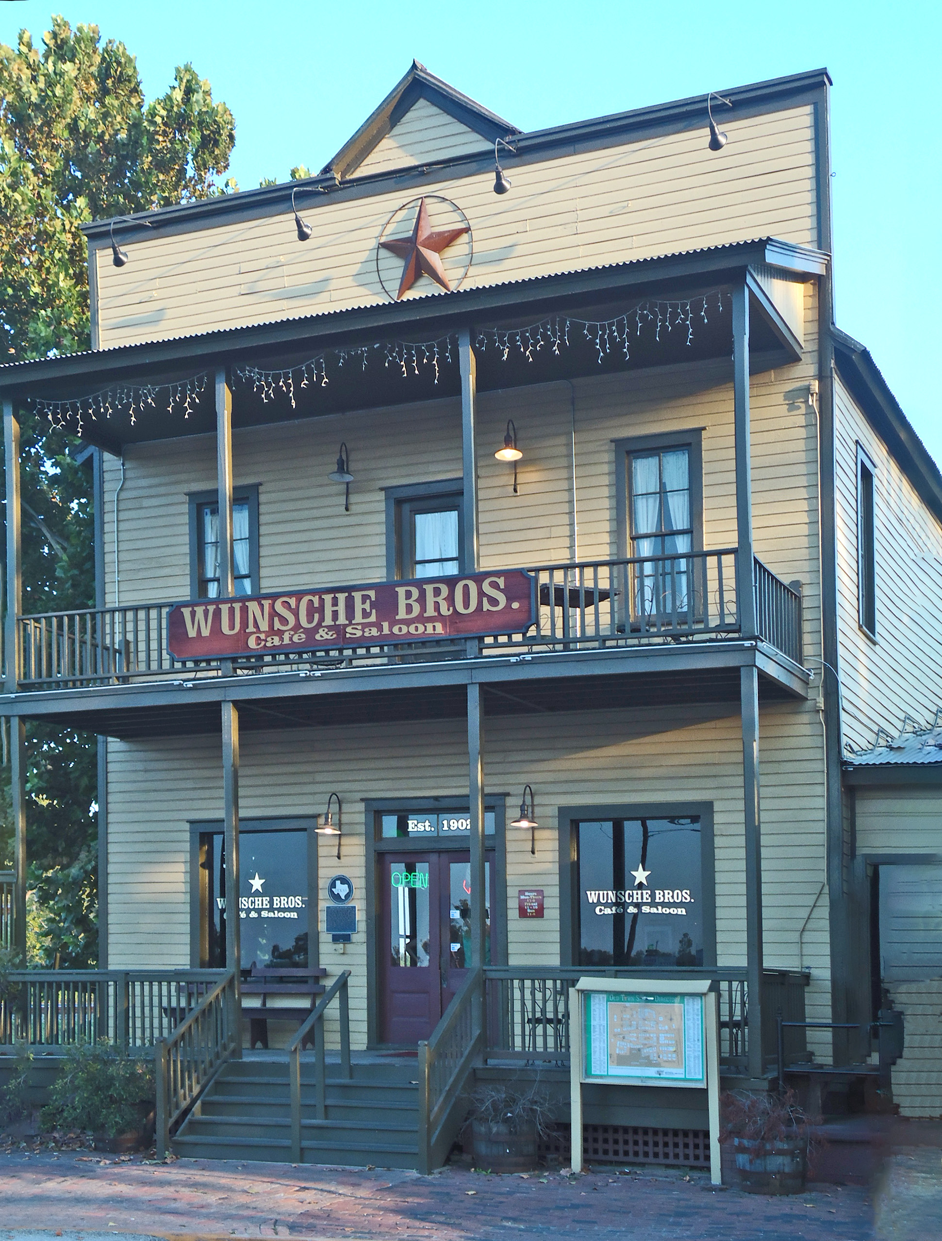 Wunsche Bros. Saloon and Hotel